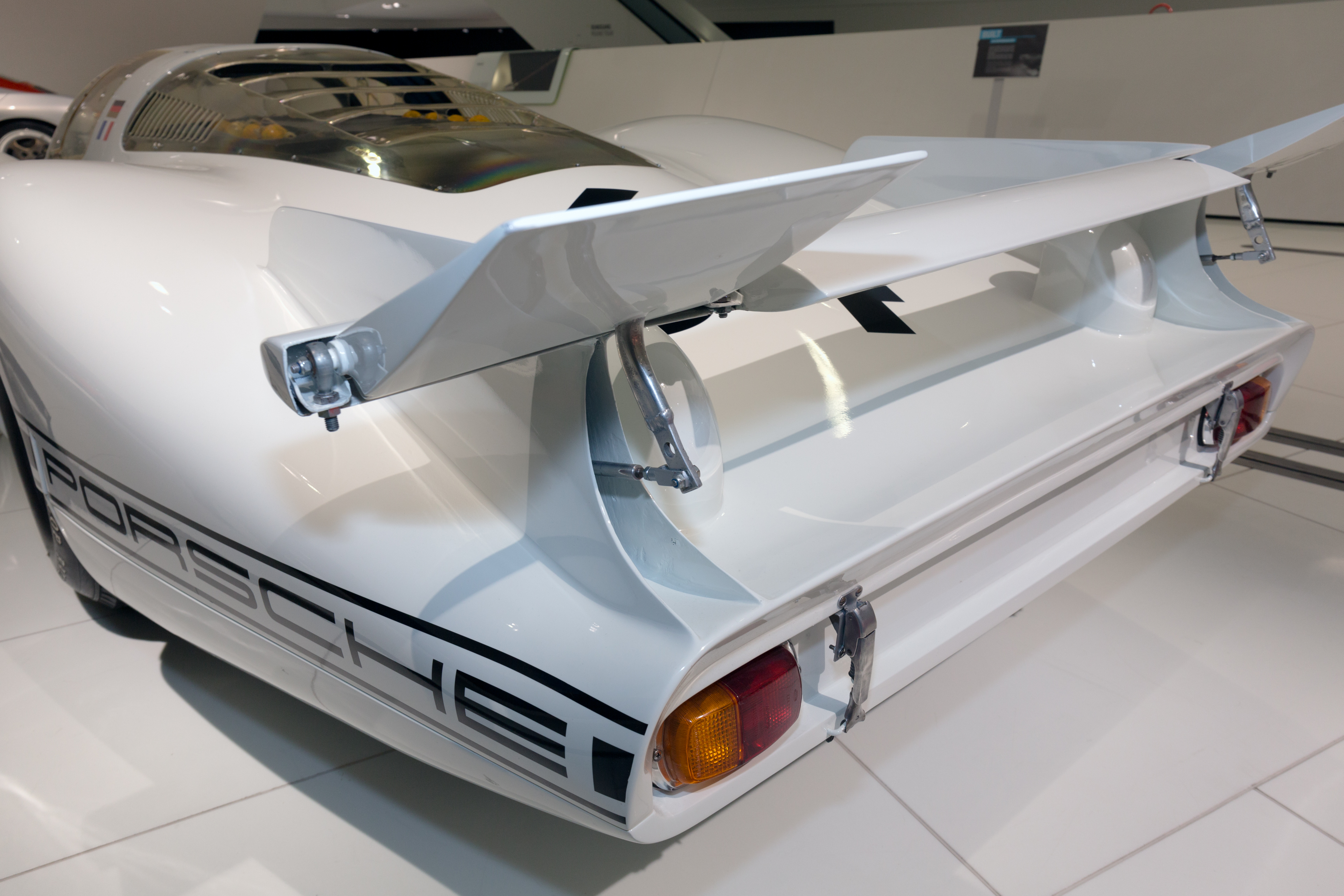 1969 Porsche 908 LH Coupé